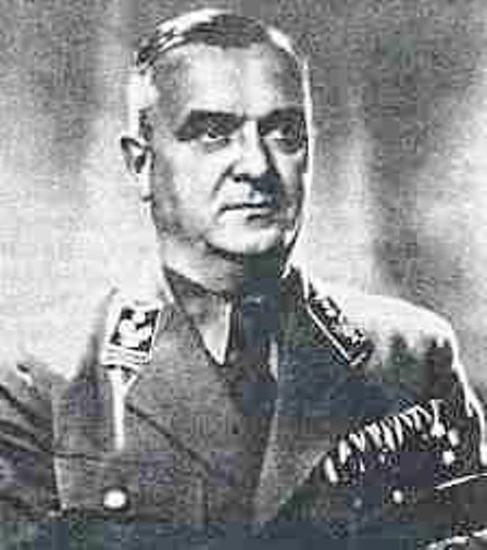 Julius Lorenzen (born March 24, 1897 in Flensburg, † June 3, 1965 Flensburg) was a German civil engineer and mayor of Bremerhaven.